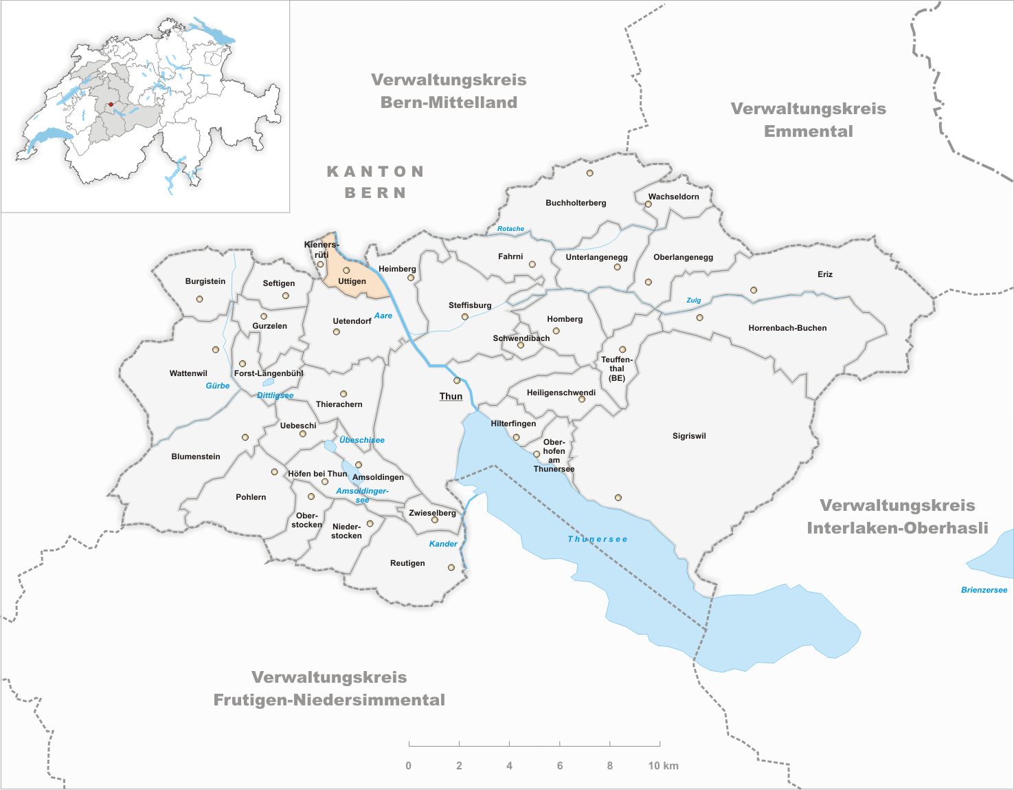 Municipality Uttigen